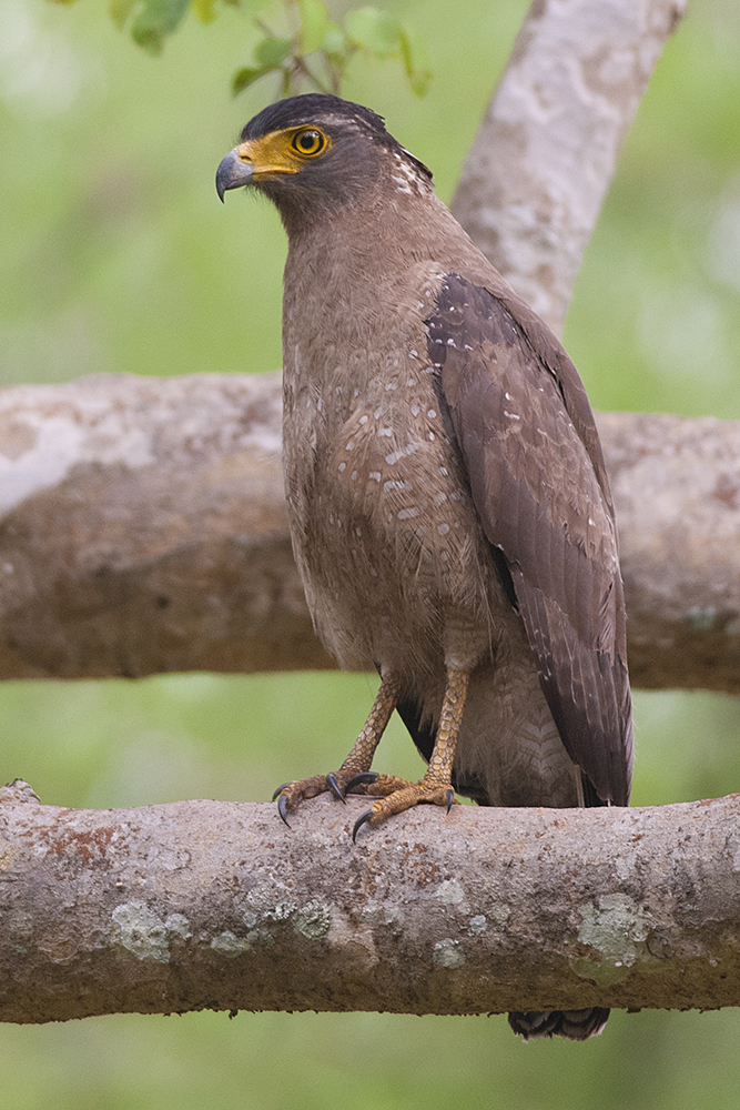 Adult crested serpent eagle